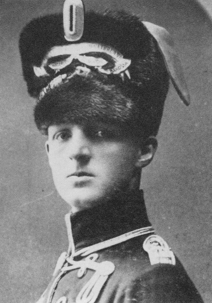 Iwan (III.) von Stietencron (1890-1914)